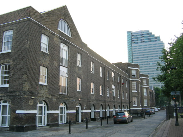 Deptford Strand. A large but elegant brick building on the Thames waterfront, not sure of its original use but part of it is now a local community resource centre.